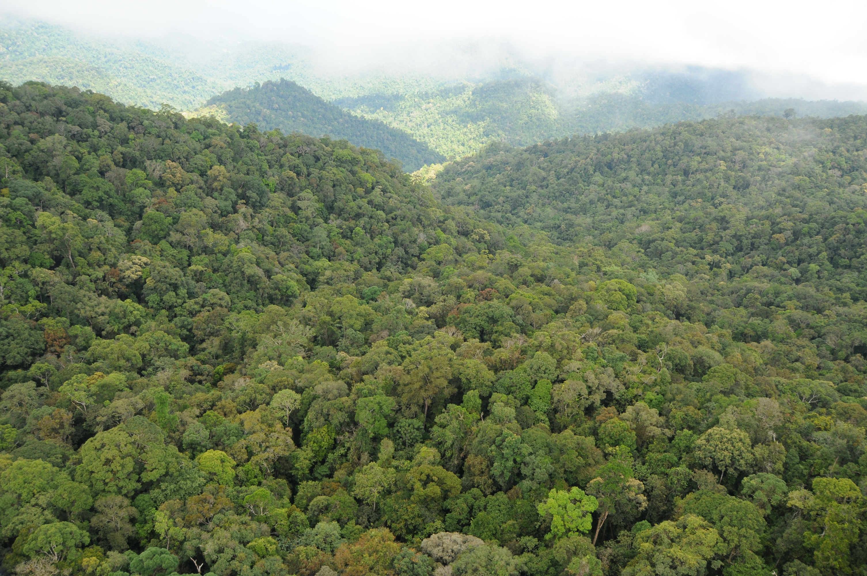 Upland Dipterocarp Forests of Trusmadi Forest Reserve, Sabah, Malaysian Borneo